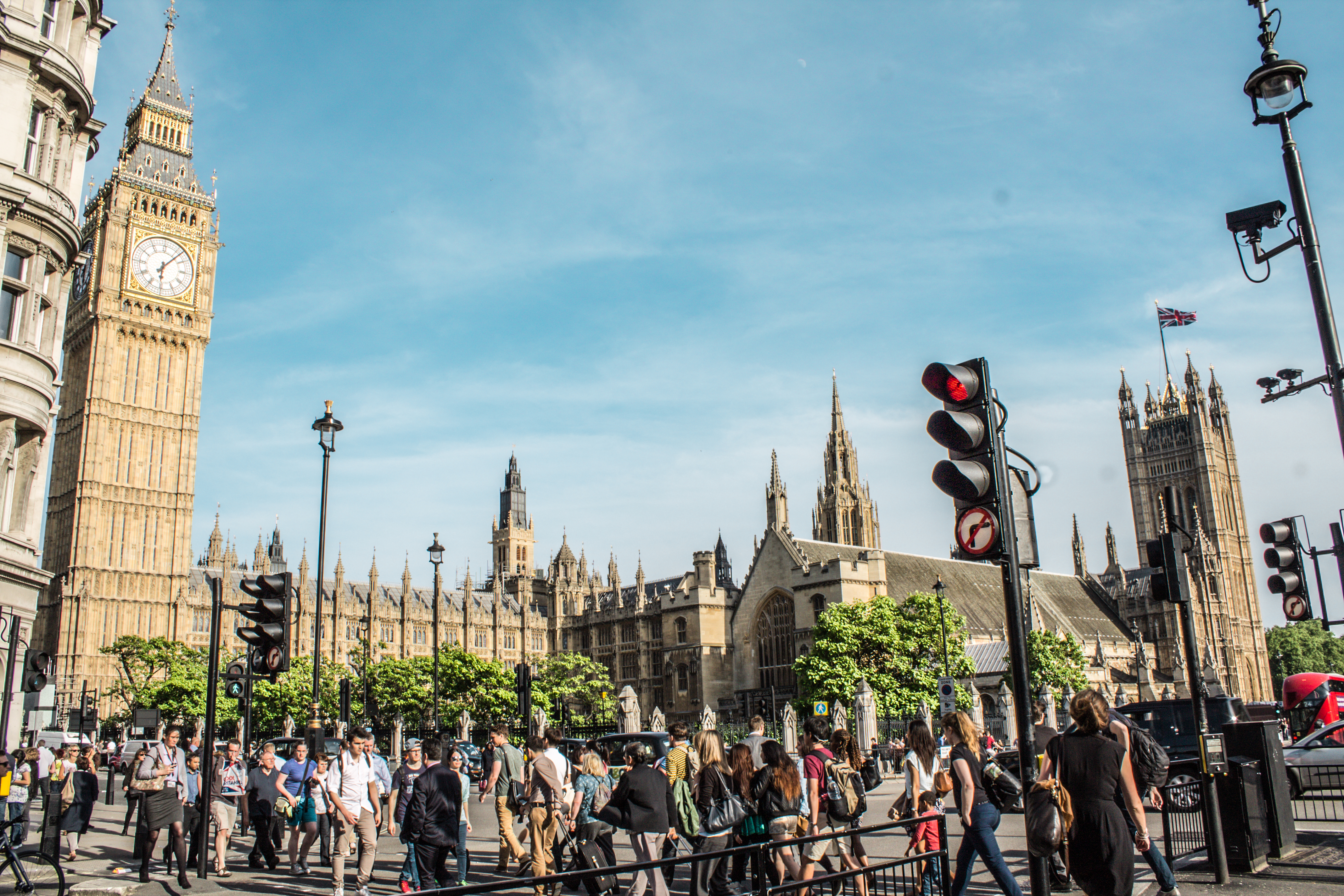 Westminster Palace